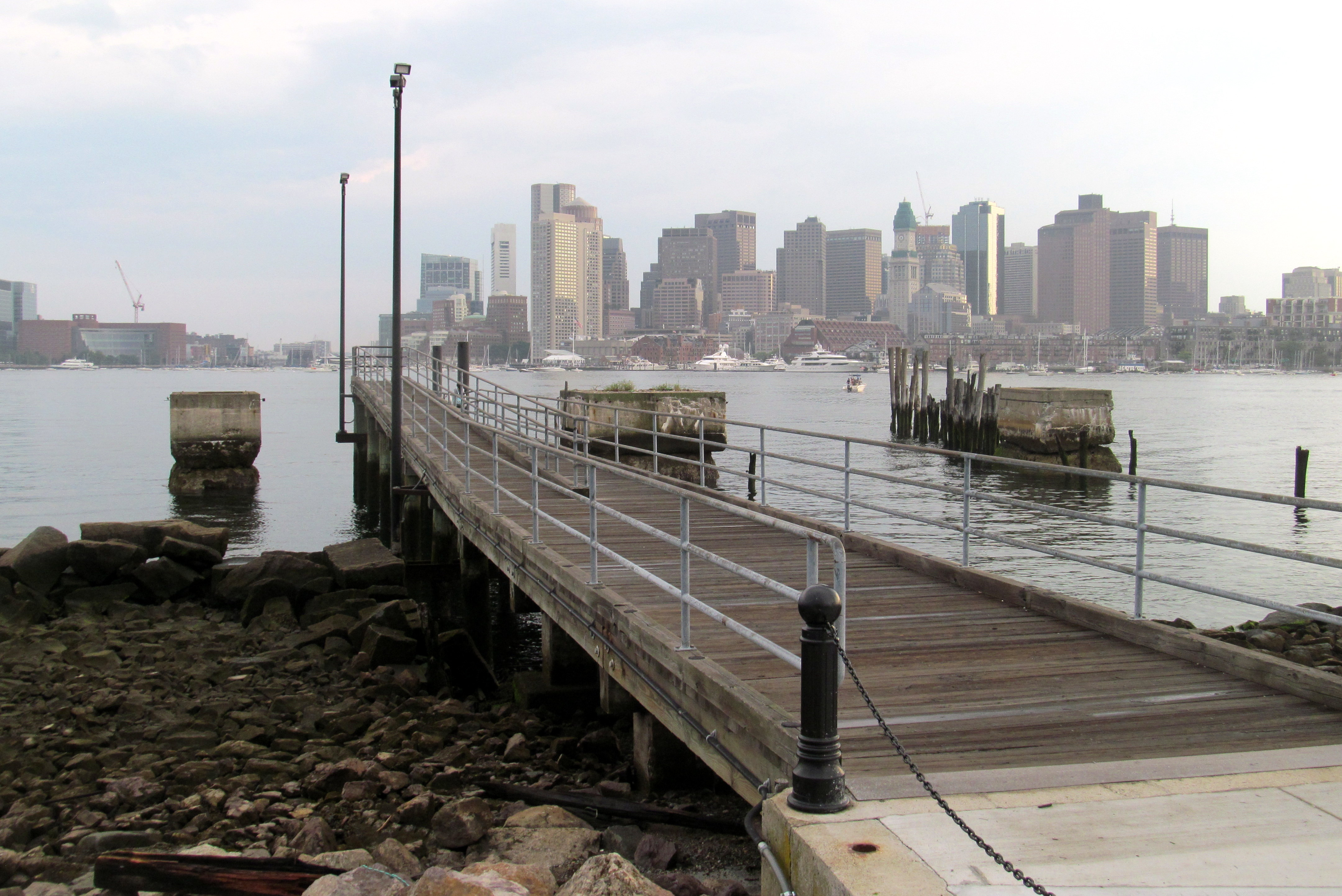 Former ferry terminal at Lewis Street in East Boston, used for MBTA ferry service from 1995 to 1997